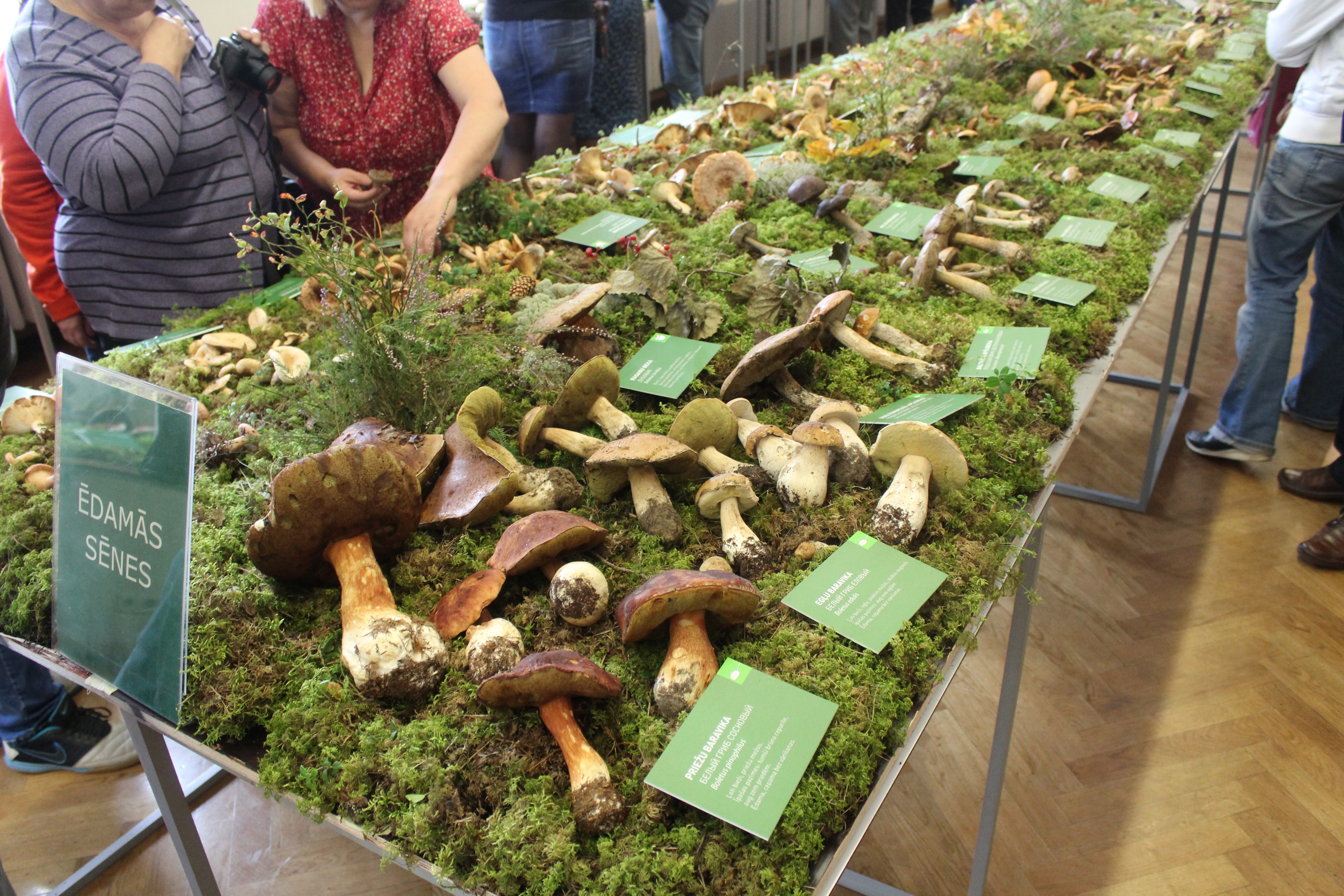 Mushrooms exhibition in Natures Museum, Rīga, 2017